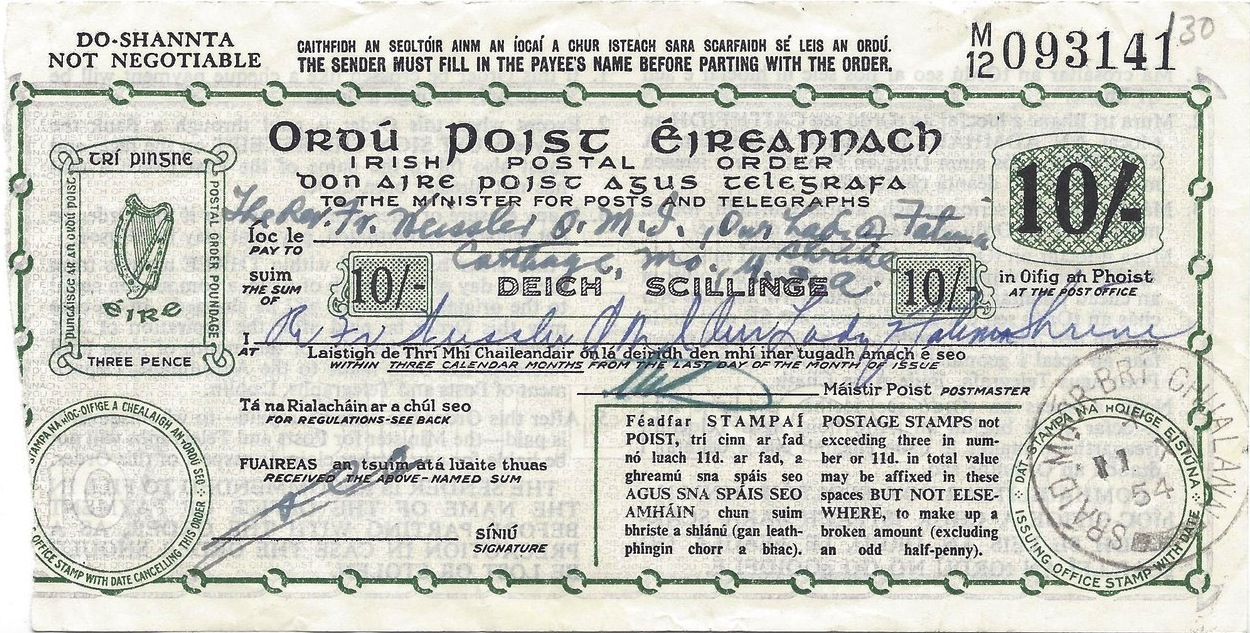 10/- (ten shilling) Postal Order of Ireland issues in 1954 at Main Street Post Office Bray, Co Wicklow